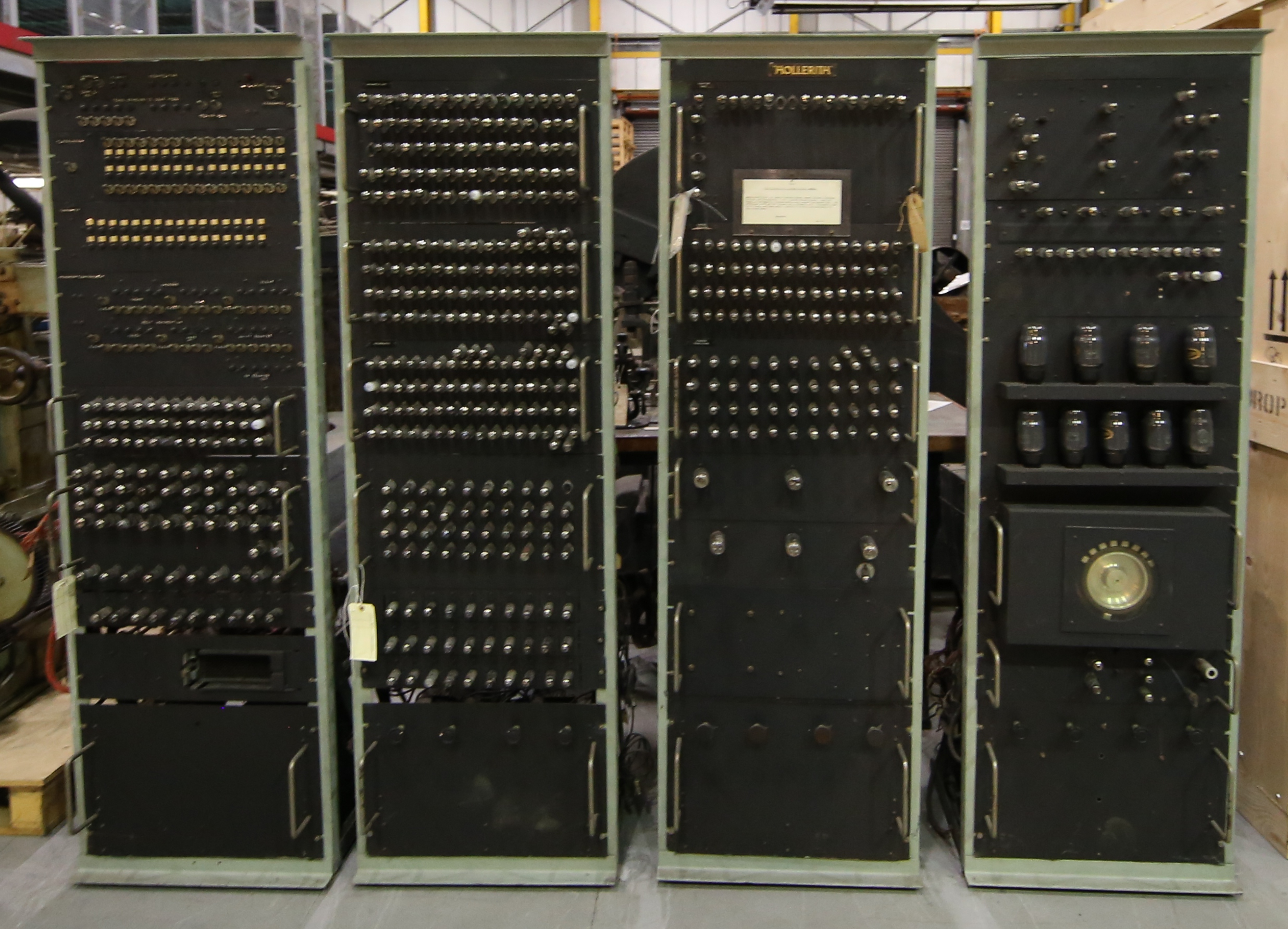 Photo of an BTM Hollerith Electronic Computer 1 computer in the Birmingham Museum Collection Centre. Computer built in 1951